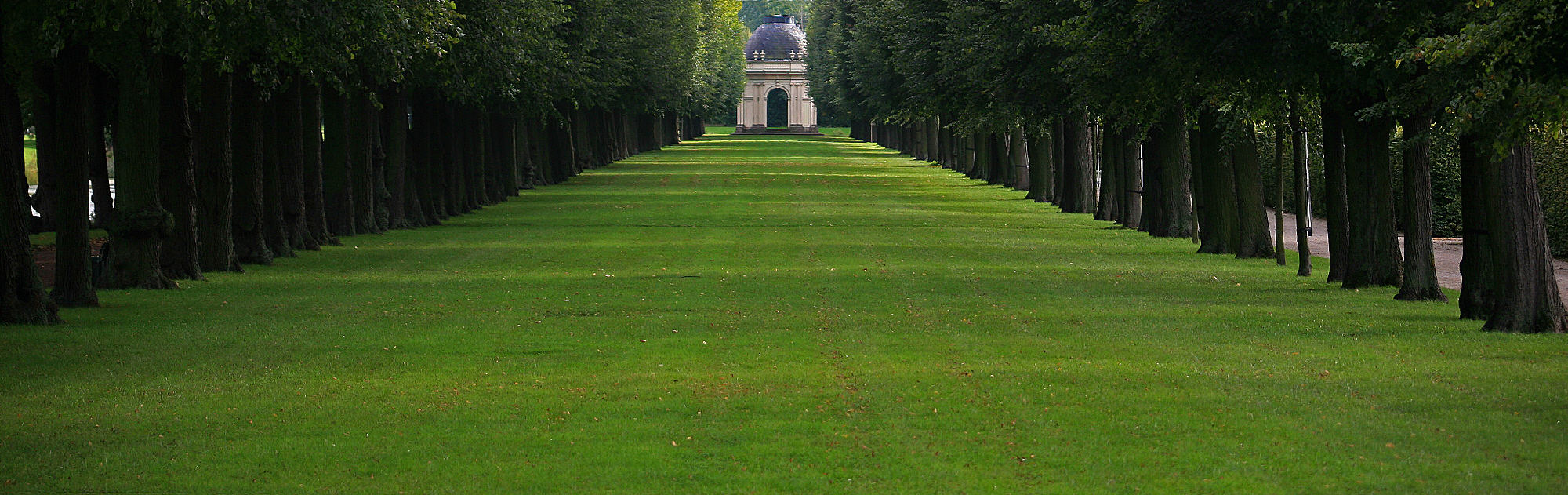 Lindenallee tapering towards the southeastern temple "Remy de la Fosse" in the Great Garden Hannover